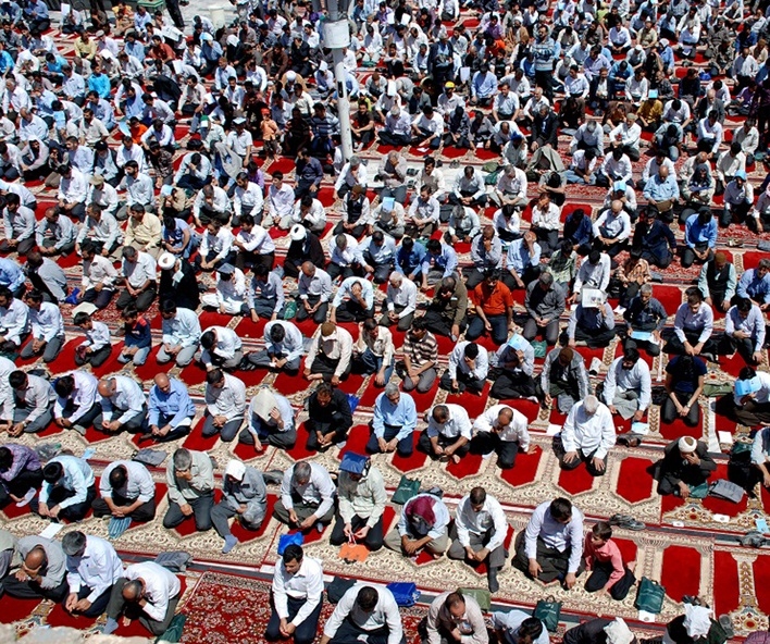 Eid Fitr Pray-Nishapur 2010